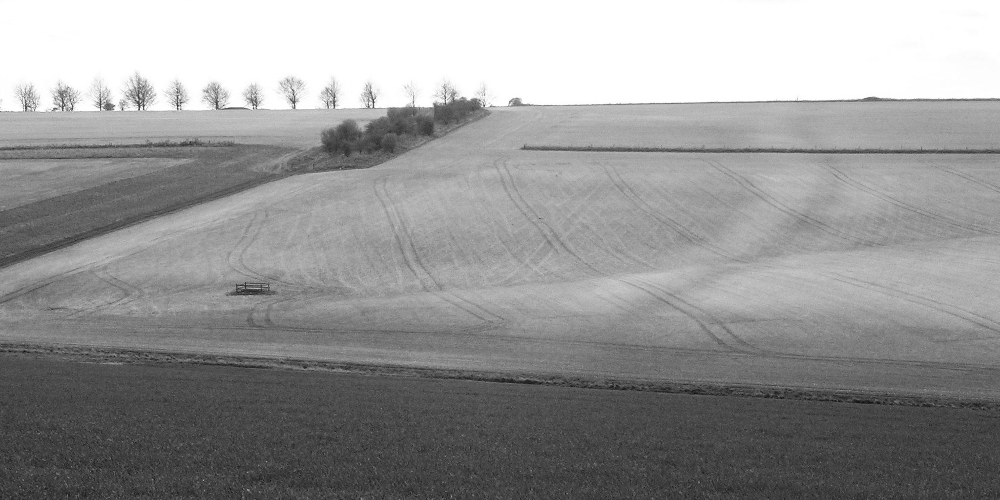 Soil marks showing the path of the Dorset Cursus. Looking southwest from the edge of Salisbury Plantation, near Pentridge, Dorset. Greyscale and contrast enhanced to make the soilmarks more visible.